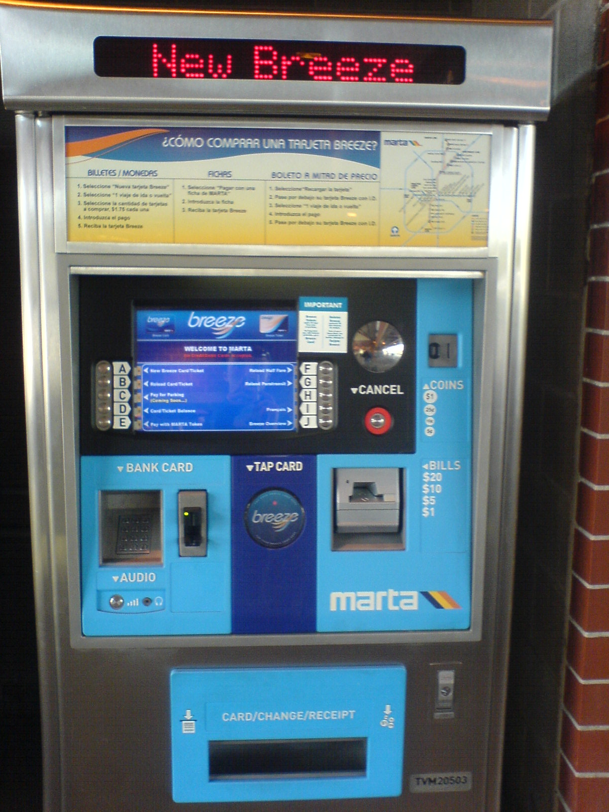 MARTA New Breeze, by Brett L. from [1]